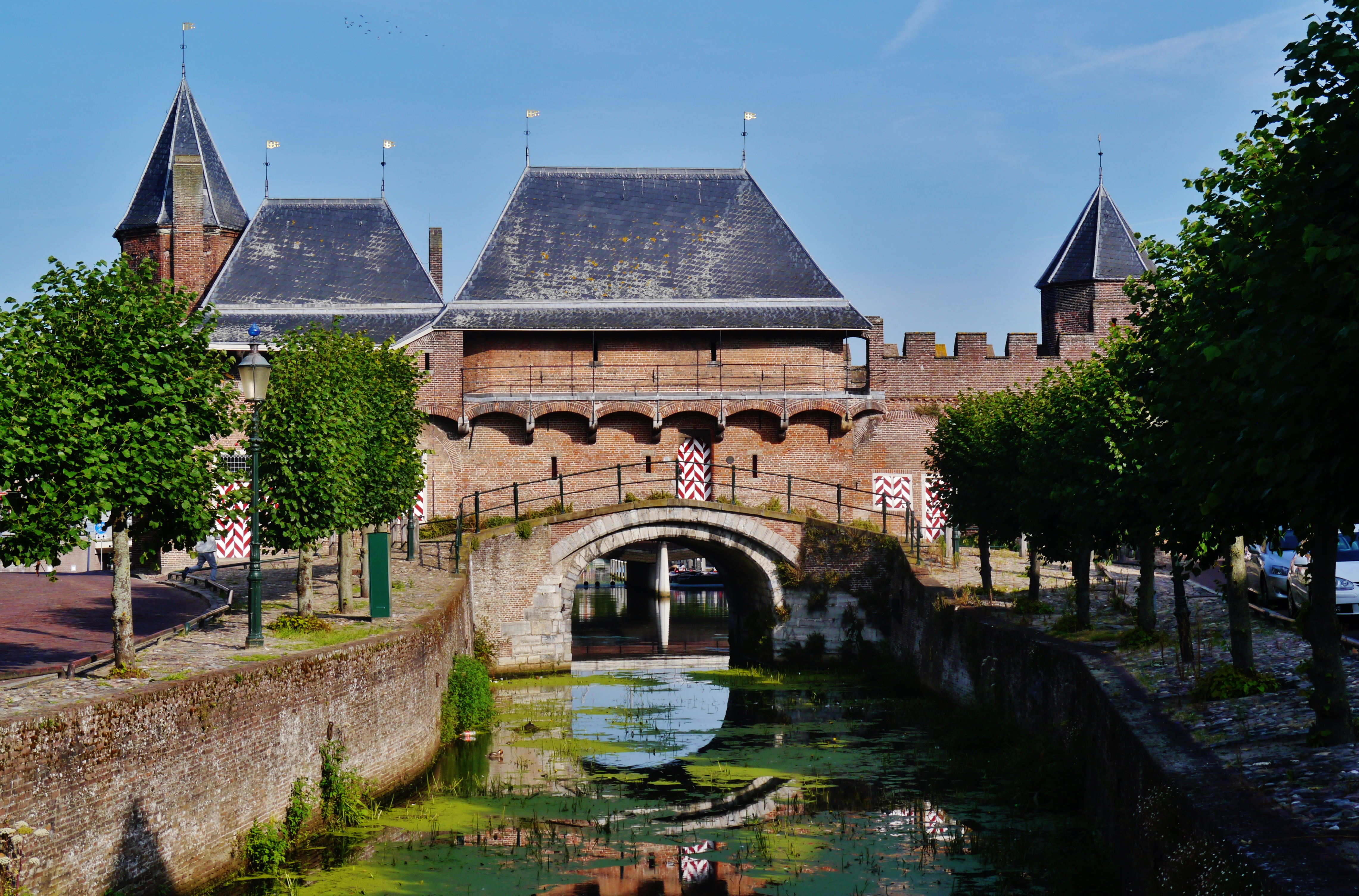 Koppel Gate, Amersfoort, Province of Utrecht, Netherlands